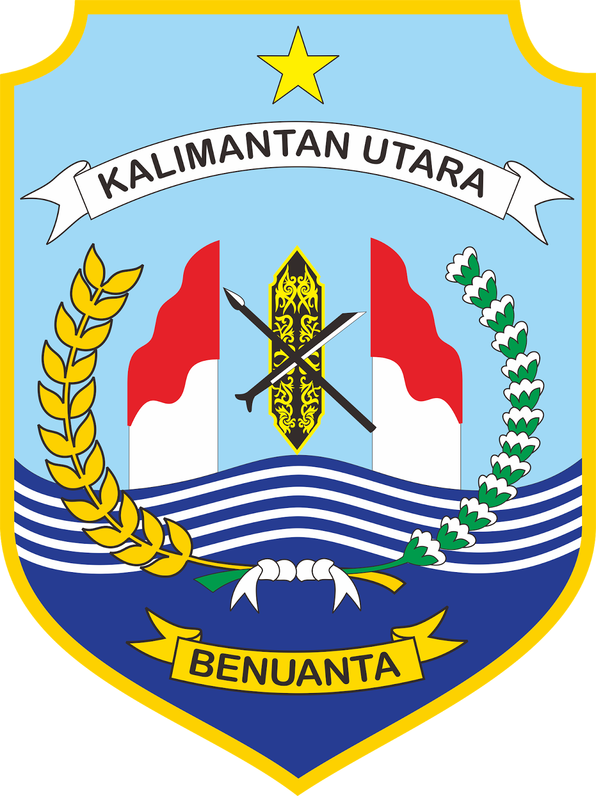 Emblem of North Kalimantan Province.